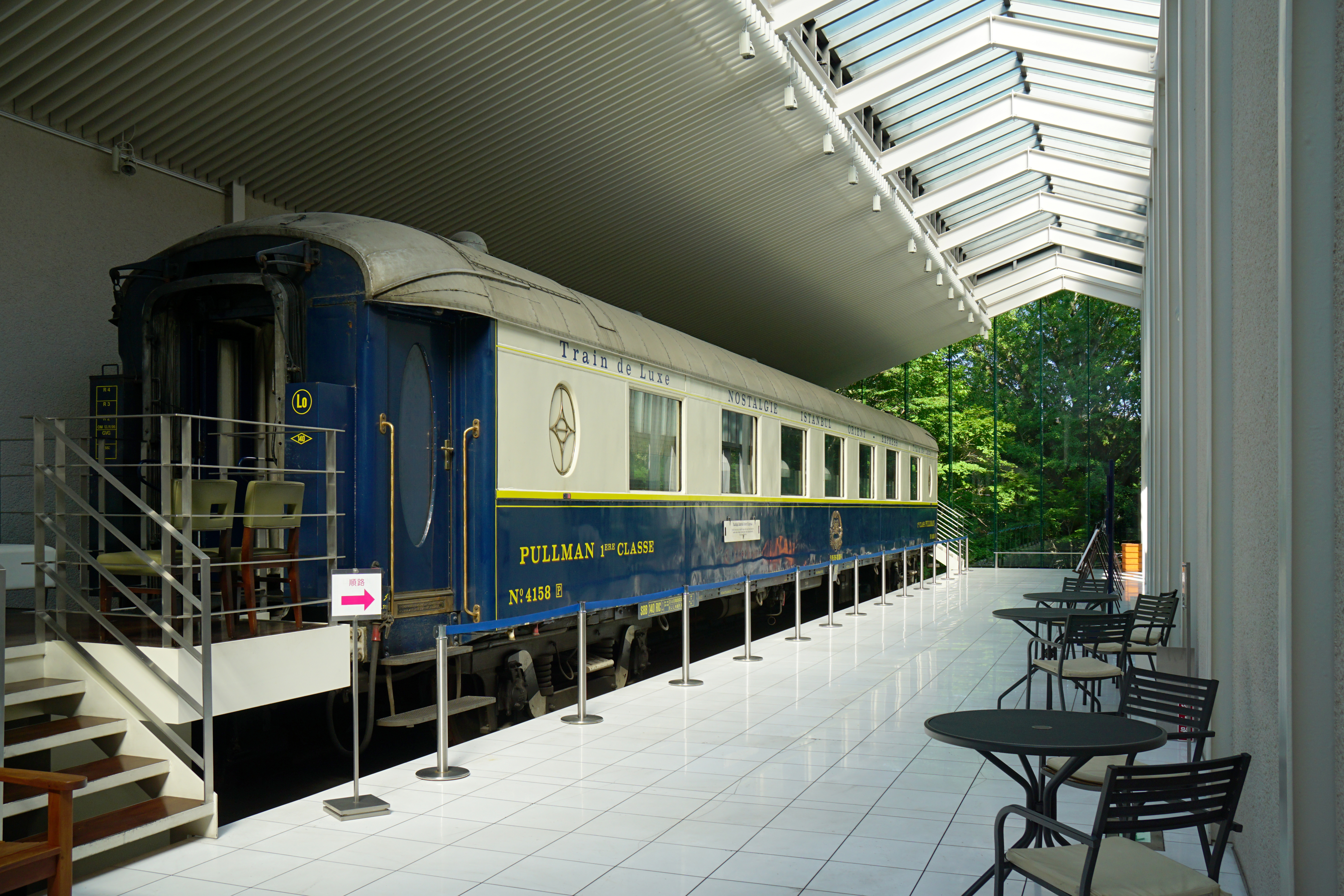 Hakone Lalique Museum in Hakone Kanagawa prefecture, Japan